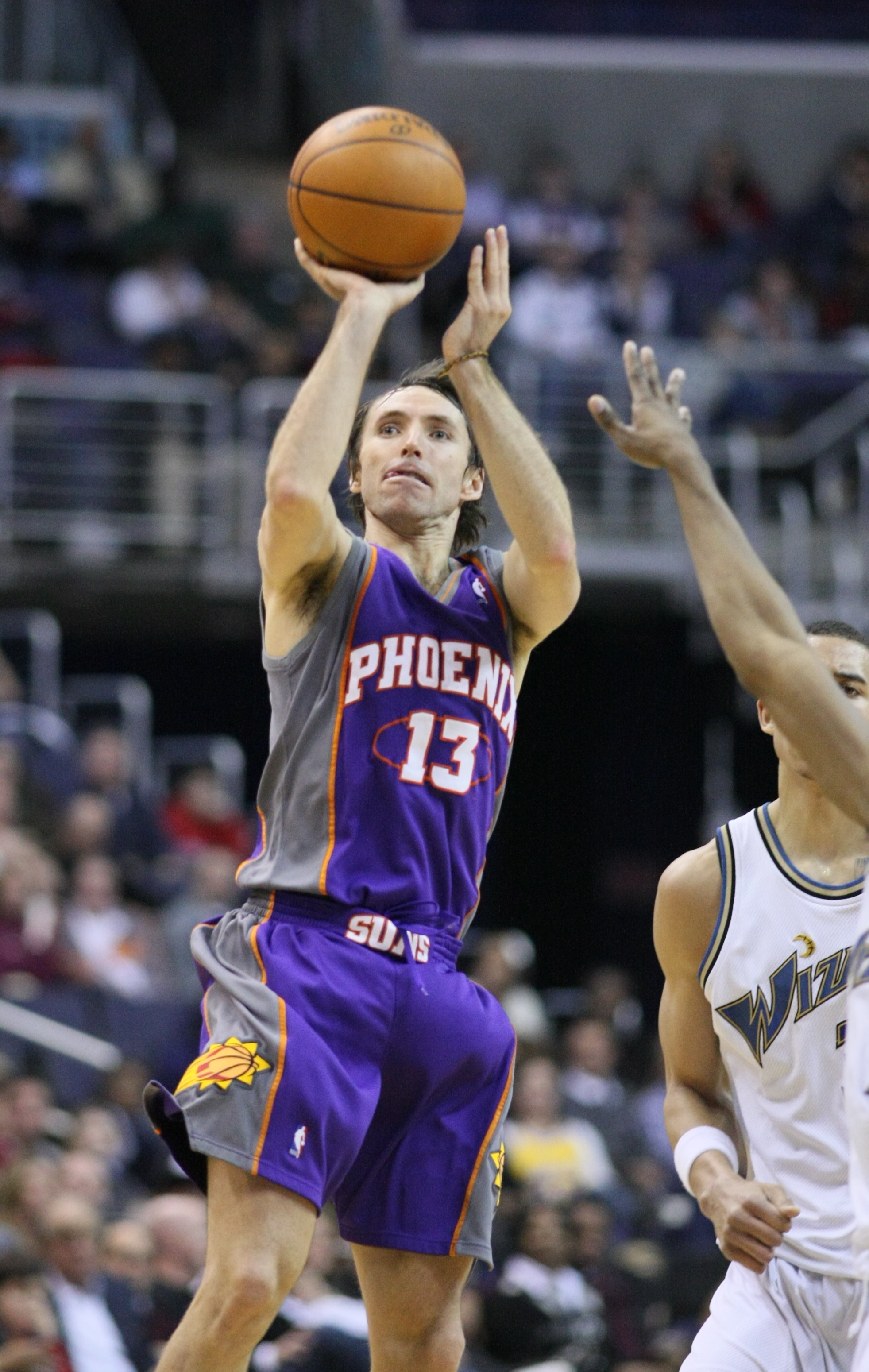 Steve Nash Throw To The Basket, Phoenix Suns vs. Washington Wizards, january 29, 2009